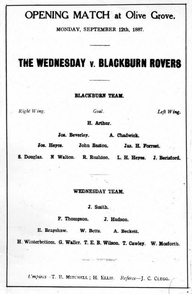 Leaflet advertising a Blackburn Rovers match on the 12th September, 1887 against The Wednesday.